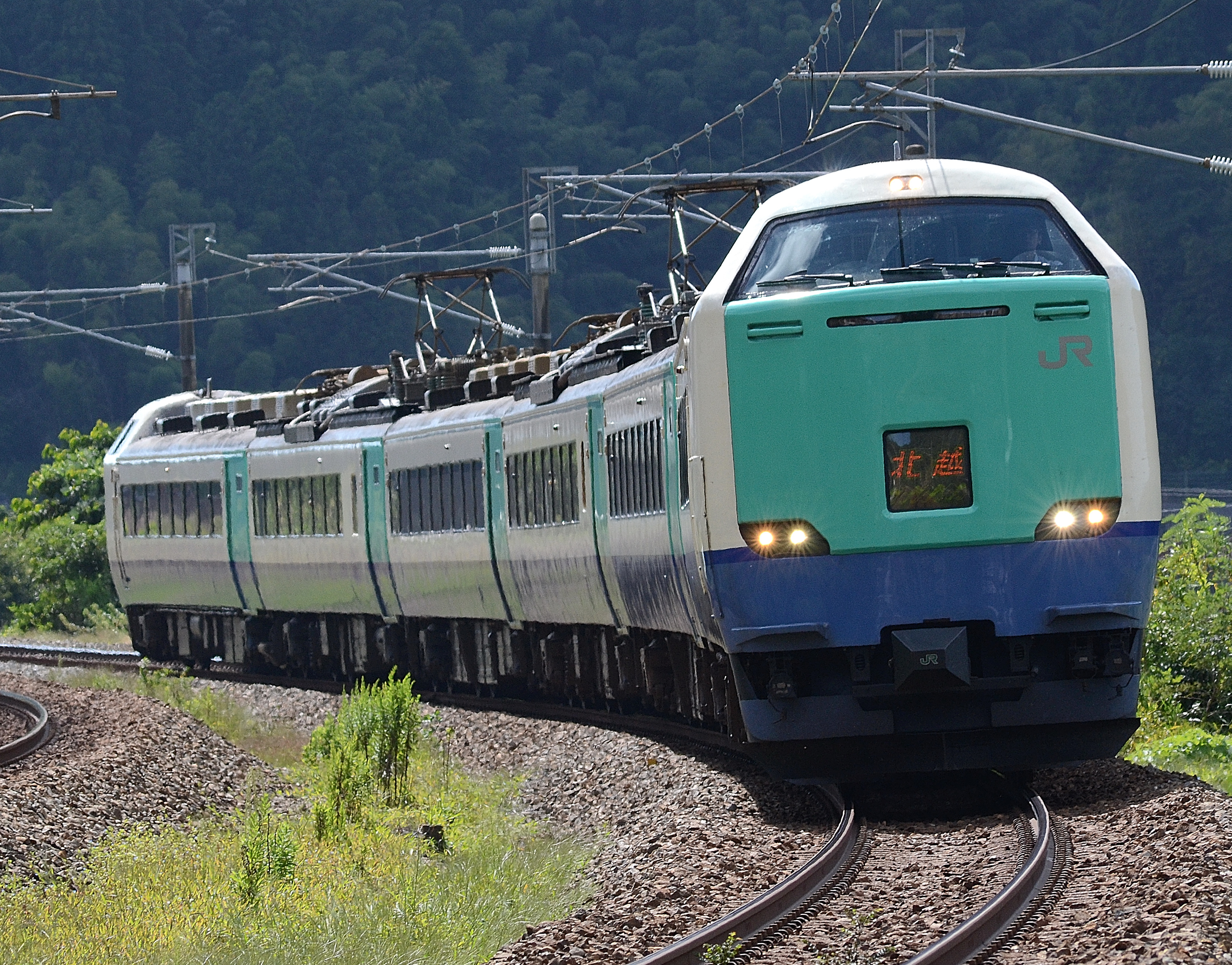 JR East 485-3000 series EMU set R25 on a Hokuetsu limited express service on the Hokuriku Main Line